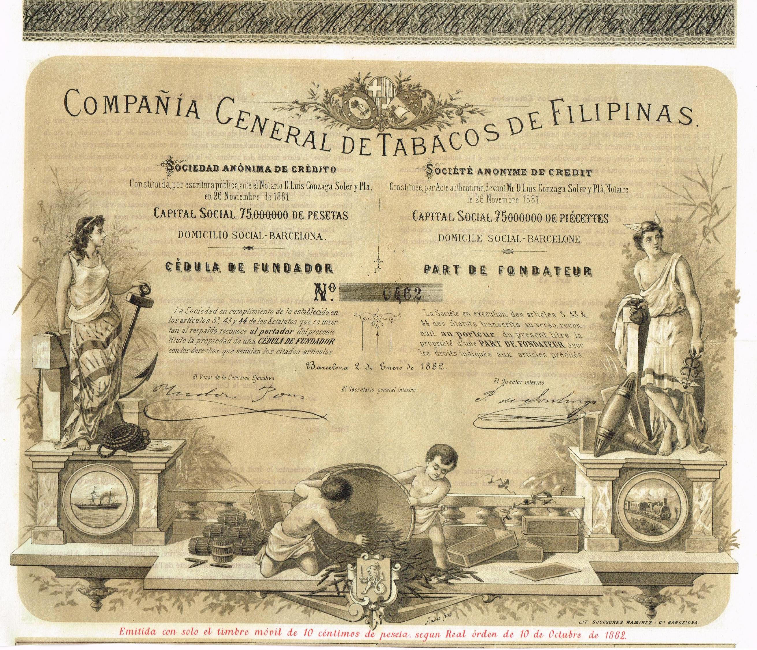 Share of the Compañía General de Tabacos de Filipinas, issued 2. January 1882